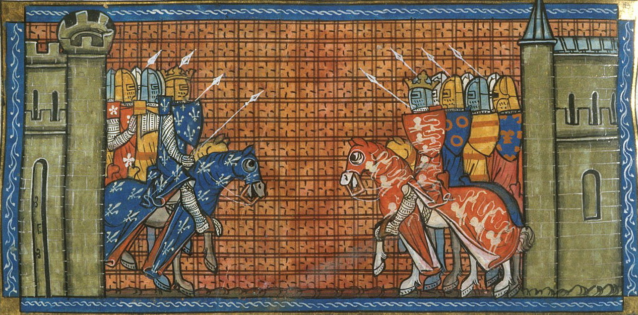 Battle between Philip II August and John Lackland. (British Library, Royal 16 G VI f. 376v)